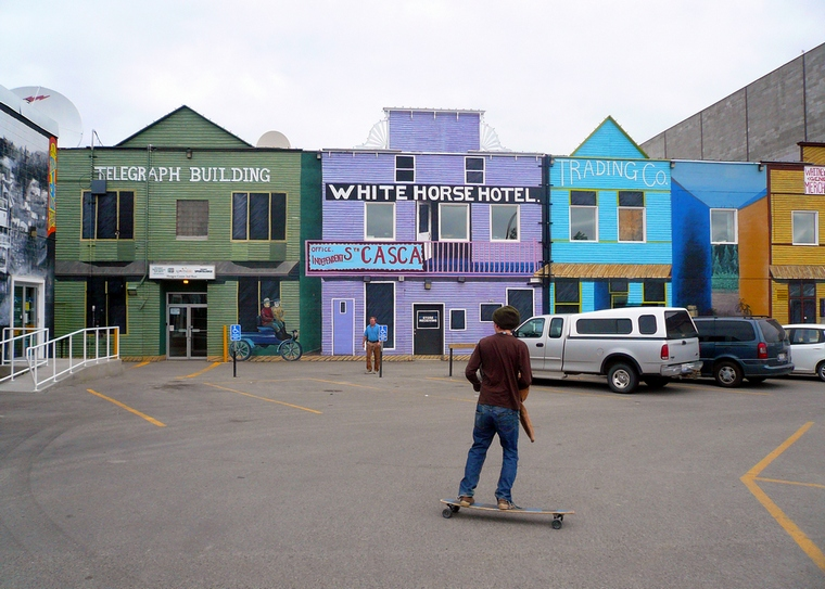 Old houses in Whitehorse